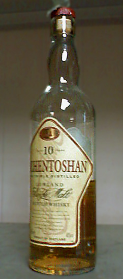 Auchetoshan bottle in a bar in Rome.